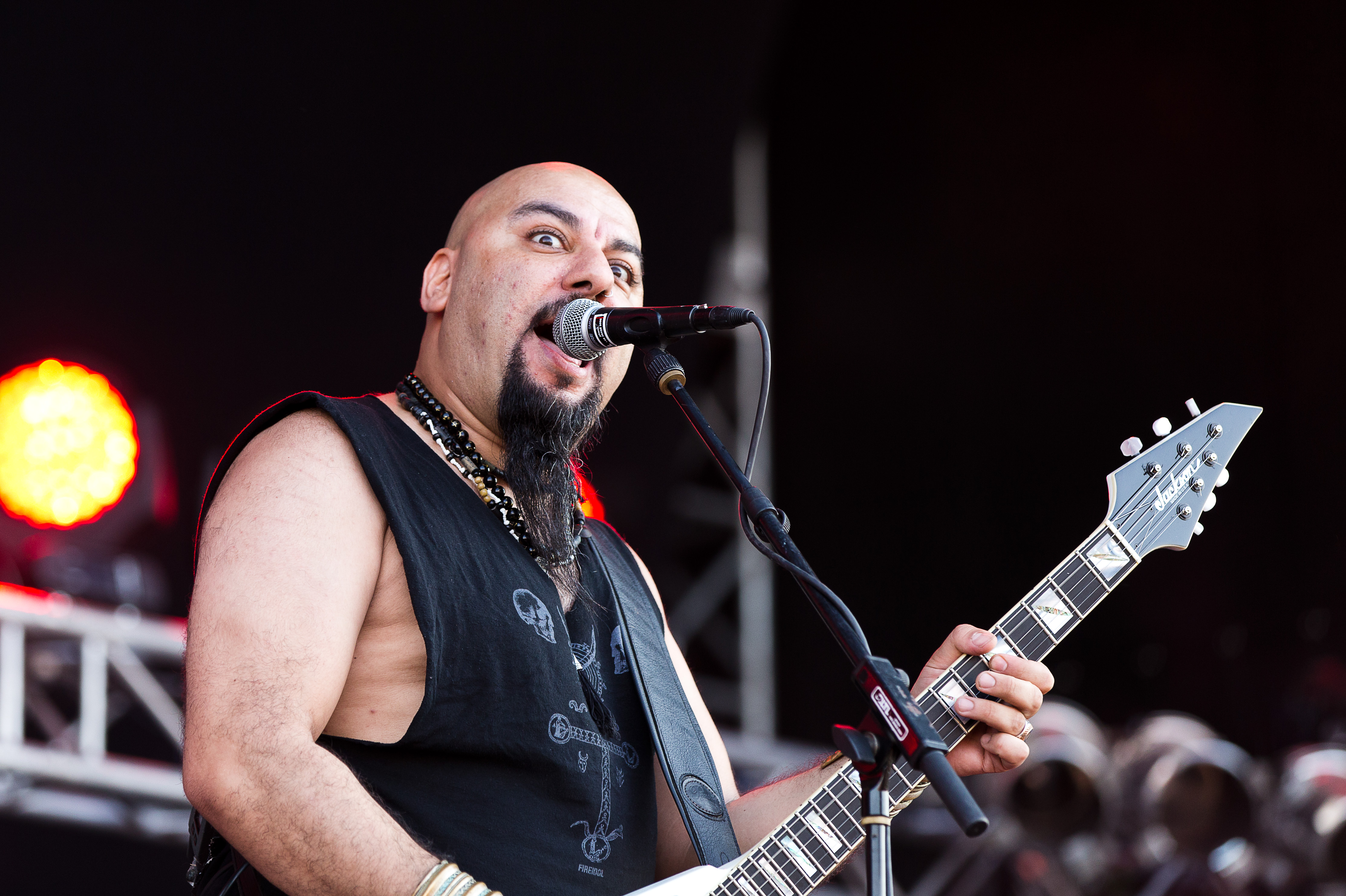 The Israeli black metal band Melechesh at the Party.San Open Air 2015 in Obermehler-Schlotheim/Germany.